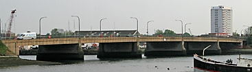 Cropped version of Image:Northam Bridge.jpg, showing the Northam Bridge and the Millbank Tower on the Northam Estate in Southampton.